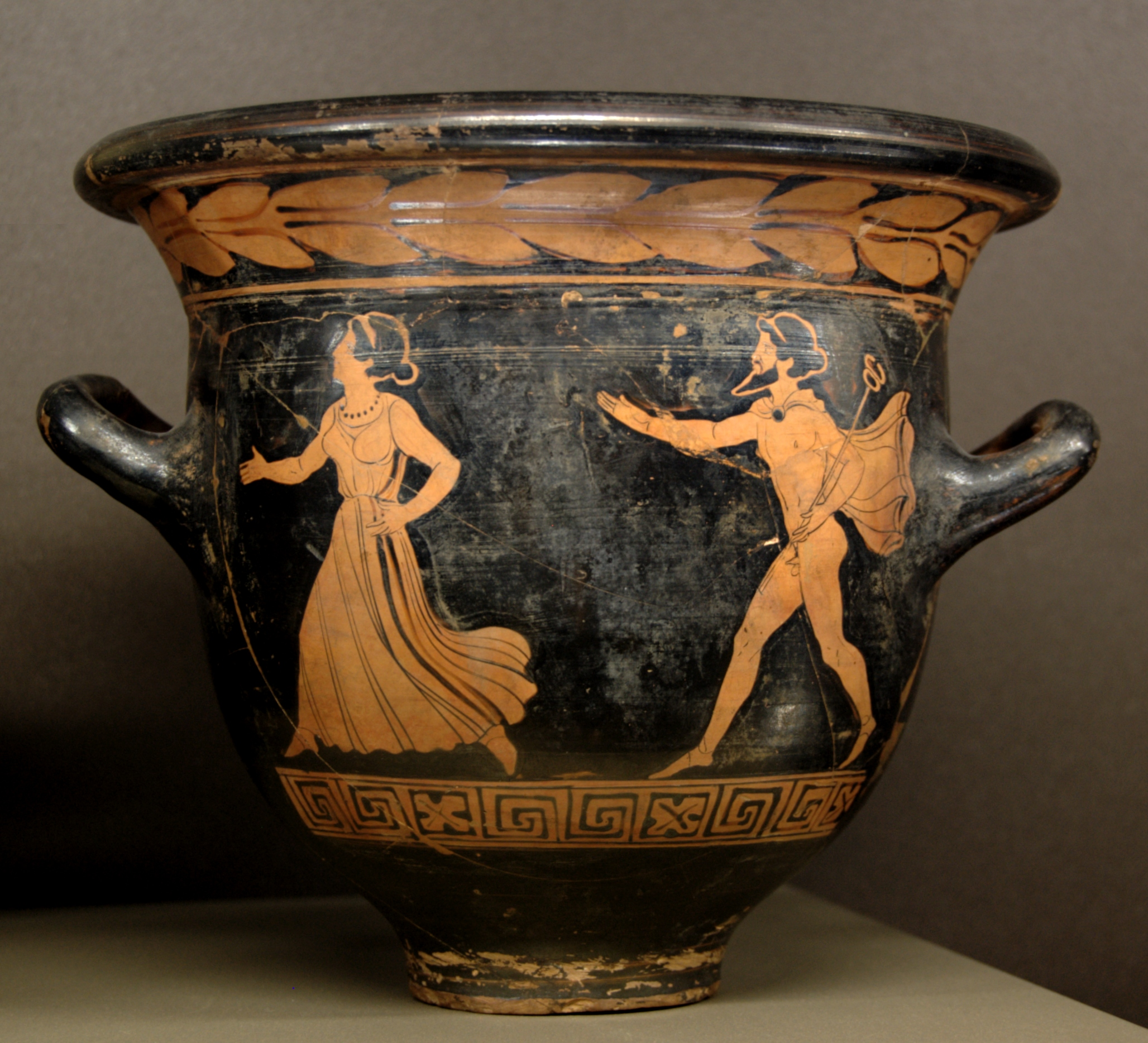 Hermes pursuing a woman, probably Herse. Side A of a Lucanian (Metapontium) red-figure bell-krater (missing foot), ca. 390–380 BC. From Nola (?).